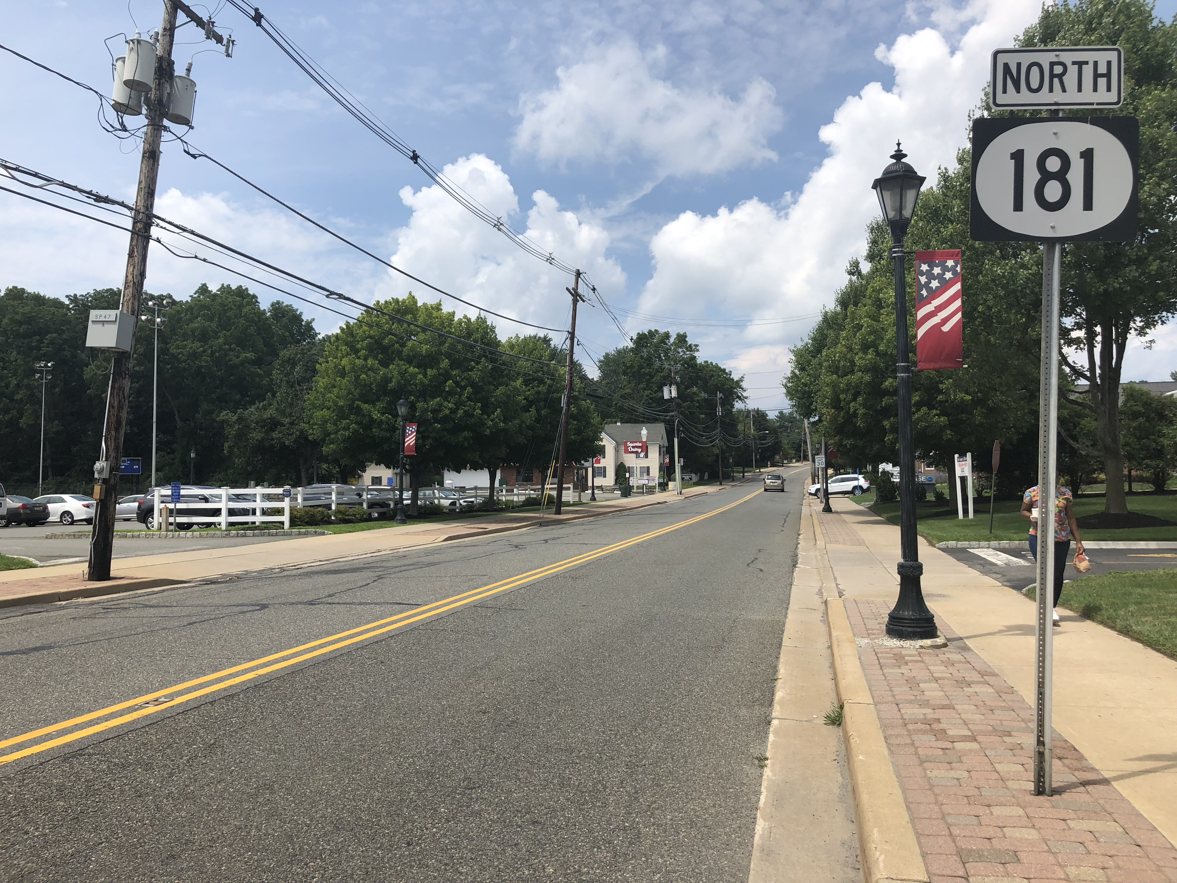 View north along New Jersey State Route 181 (Sparta Avenue) just north of Main Street and Spring Street in Sparta Township, Sussex County, New Jersey